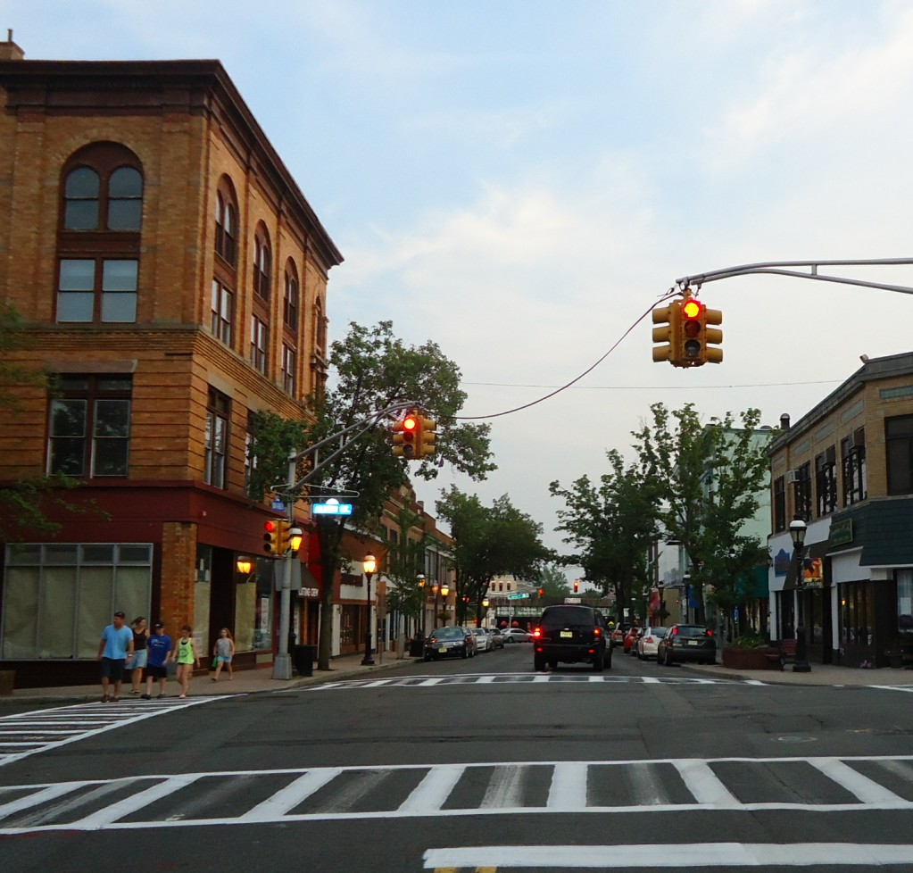 Street scene in Cranford, New Jersey in the downtown area.